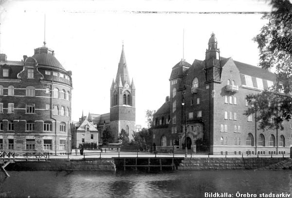 The post and telephone offices, Örebro, Sweden